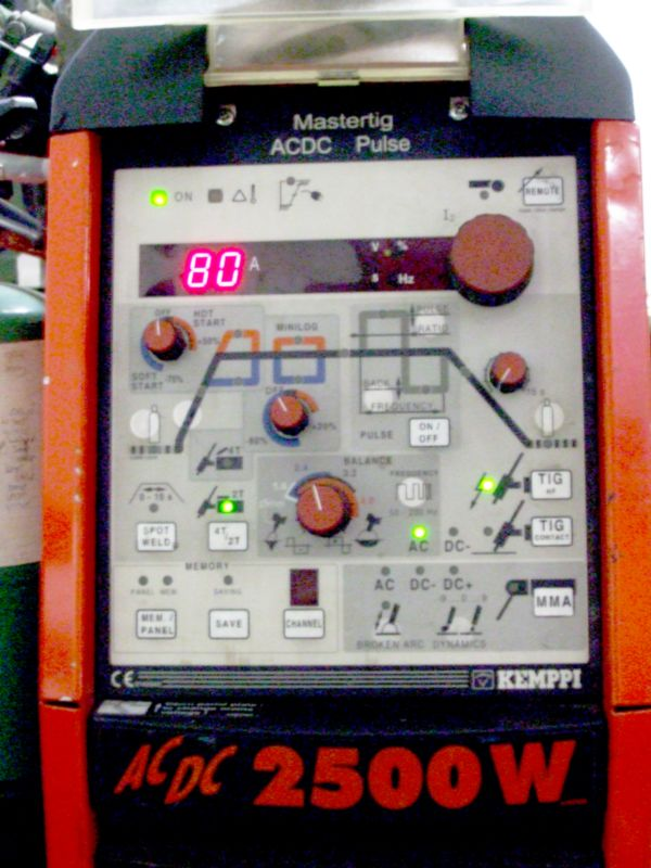 control panel of a machine with many options (Kemppi AC/DC 2500W pulsepanel)